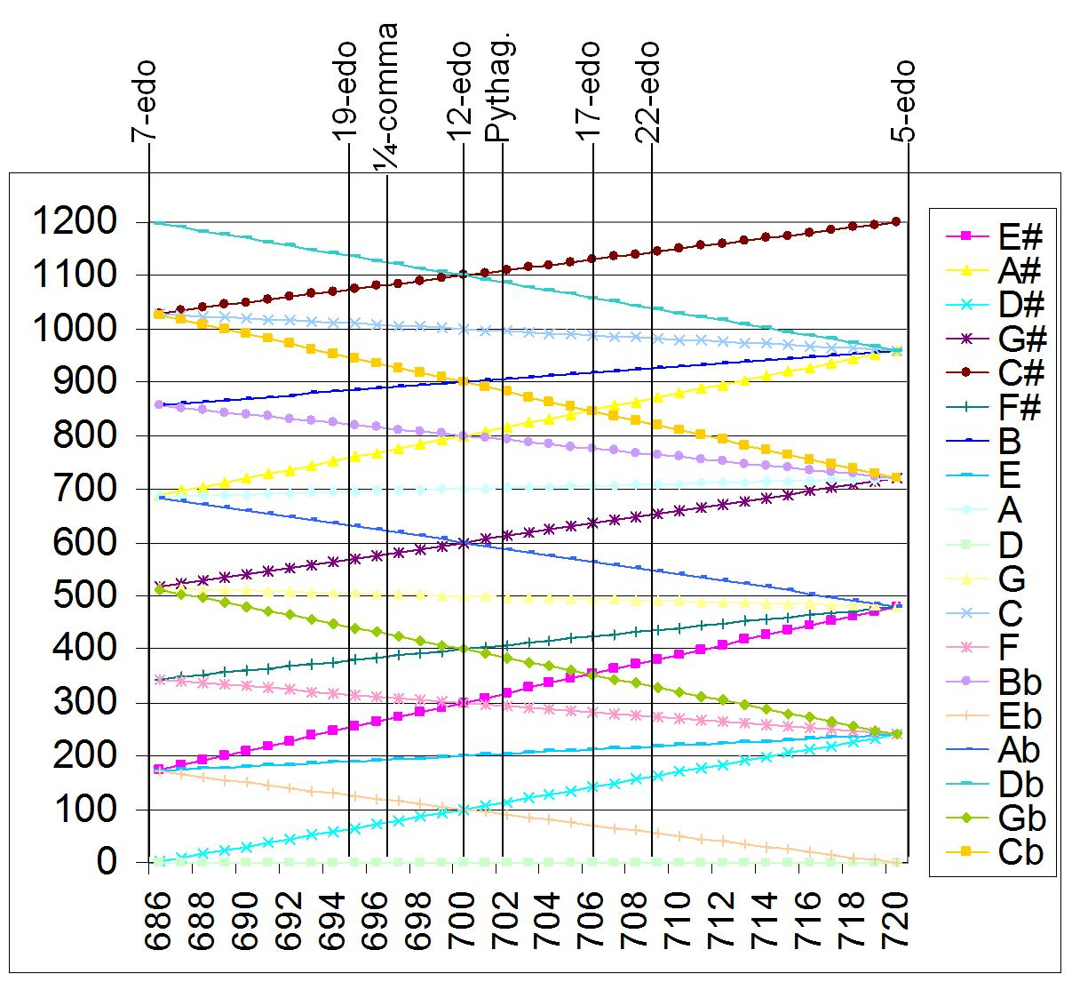 Change in pitch of the notes of the syntonic temperament as its generator (the tempered perfect fifth) changes in width from 686 to 720 cents. Tonic is D.